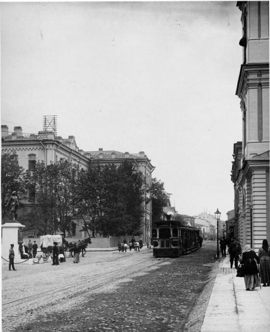 Bolshoi Sampsonievsky Prospect in 1900s